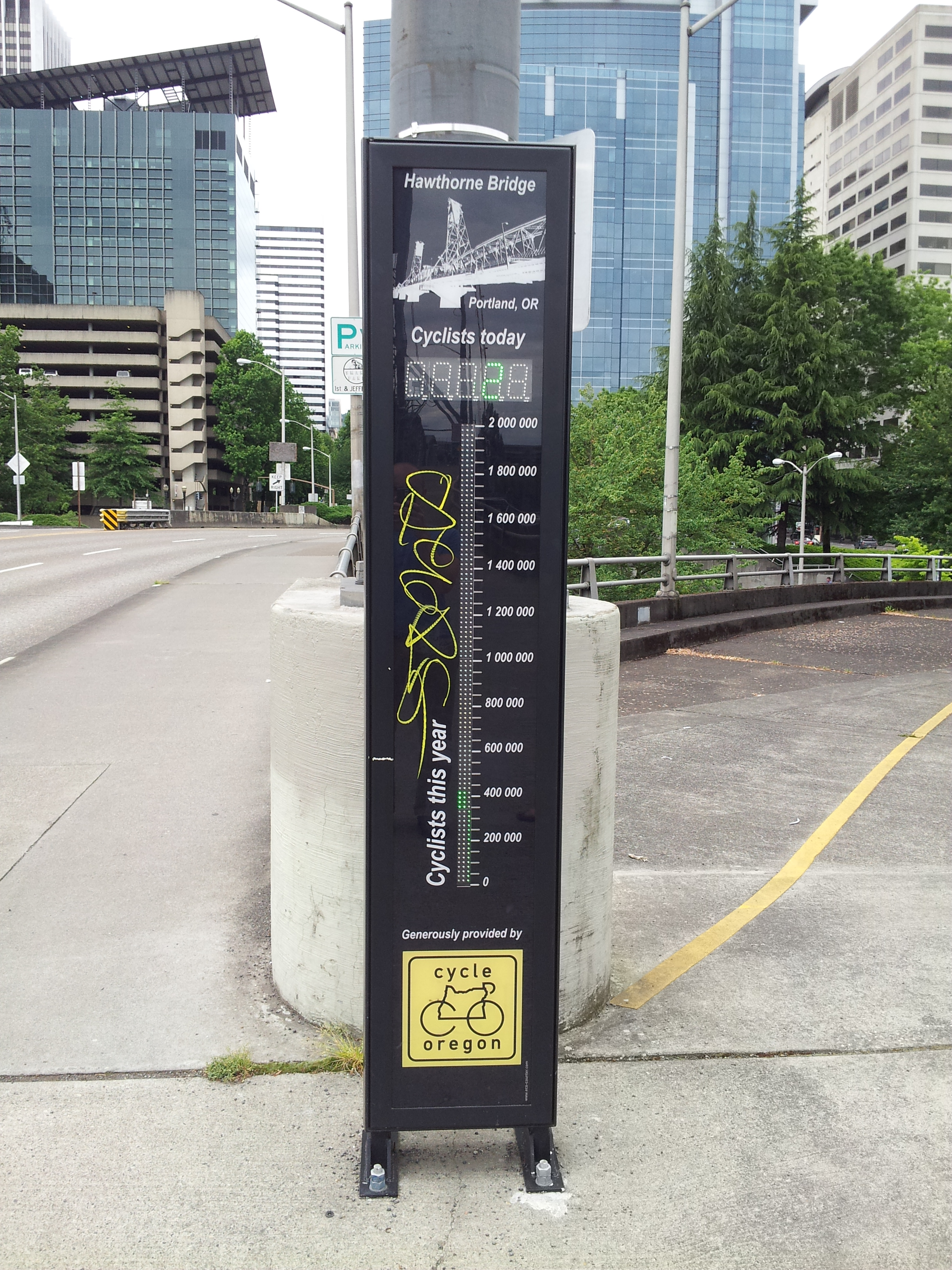 Hawthorne Bridge bike counter, 2014